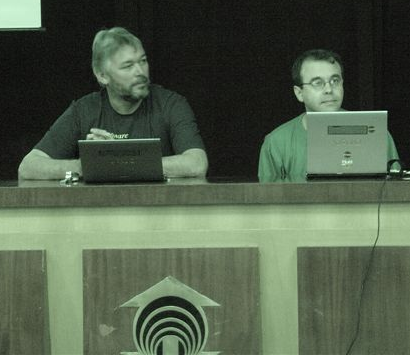 Marcos Mazoni and Sergio Amadeu, free software meeting in Fortaleza